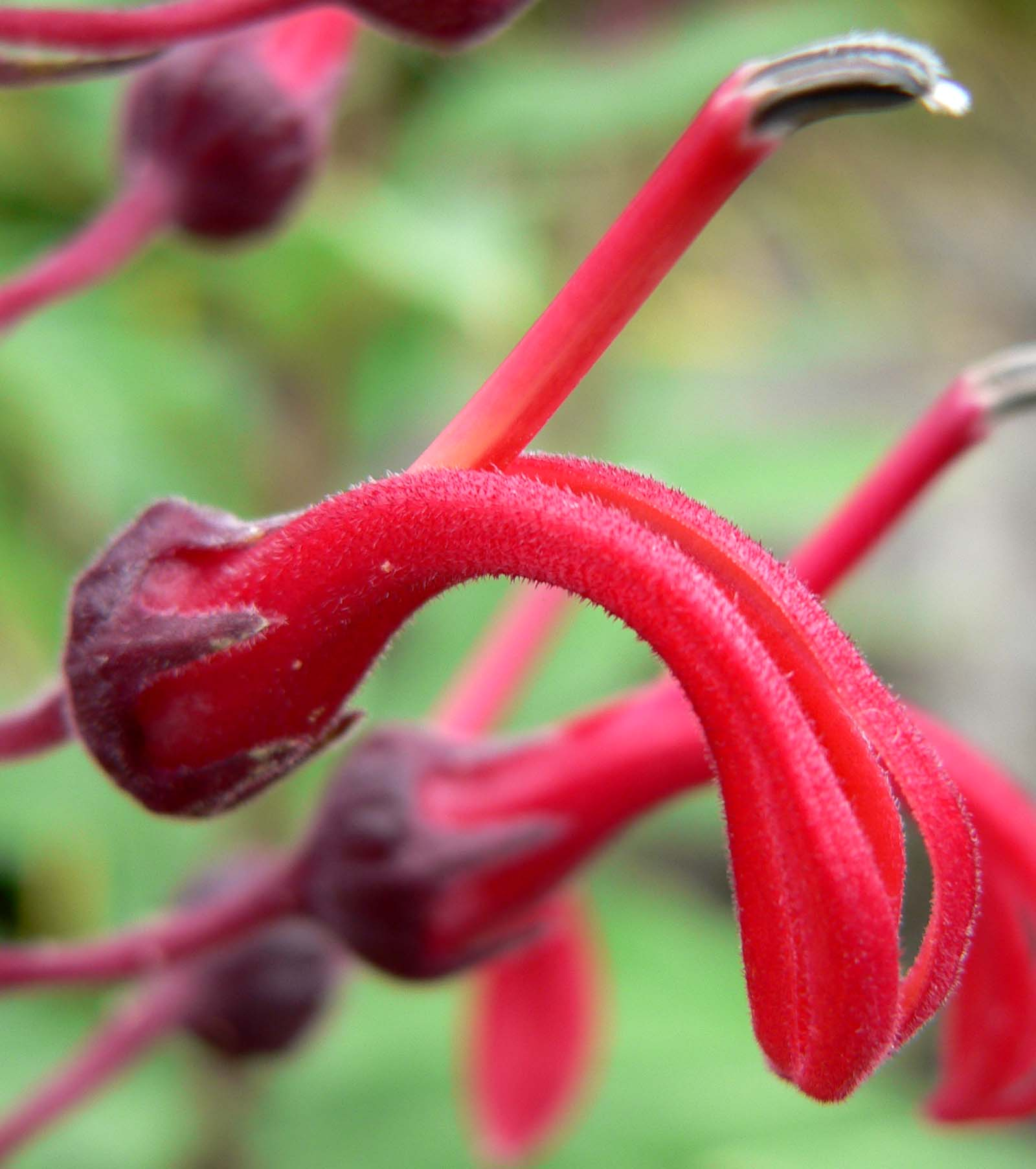 Photo of Lobelia tupa at the UBC Botanical Garden